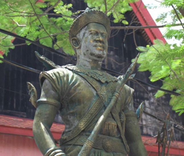 Sdach korn